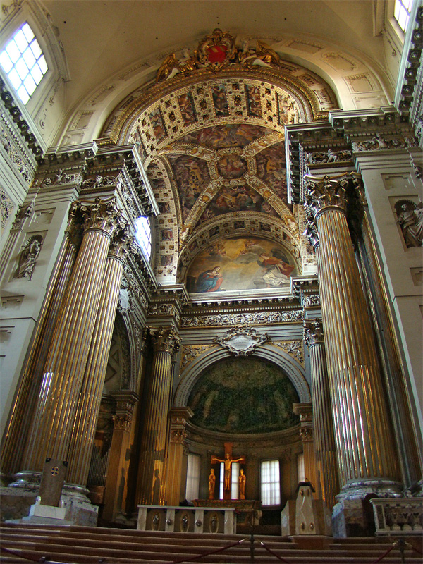 San Pietro Cathedral, Bologna, Emilia-Romagna, Italy. Main chapel.